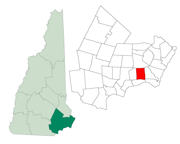 Map of a municipality in Rockingham County, New Hampshire